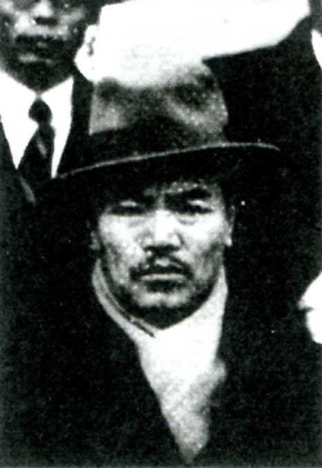 Bak Jubeom, winning council member of Honjo village, Muko county, Hyogo